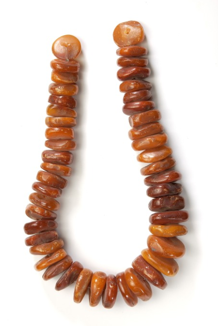 Necklace of amber beads (2000-1000 BC) Origin: probably Baltic Sea region; discovered in Utrecht. National Museum of Antiquities, Leiden.